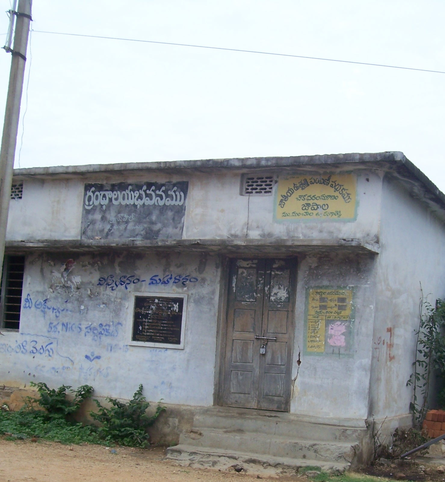 library